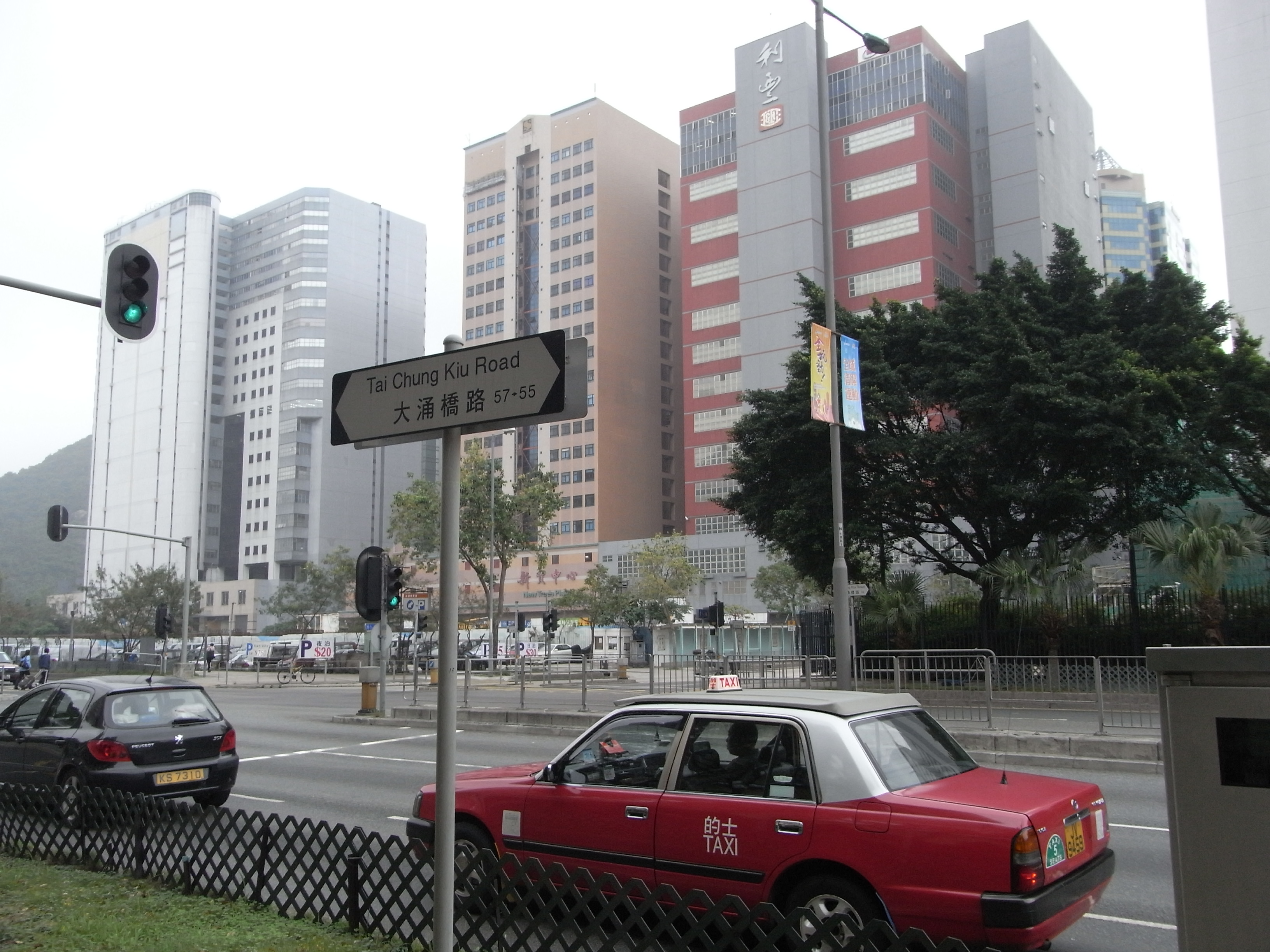 沙田 大涌橋道望石門 利豐中心